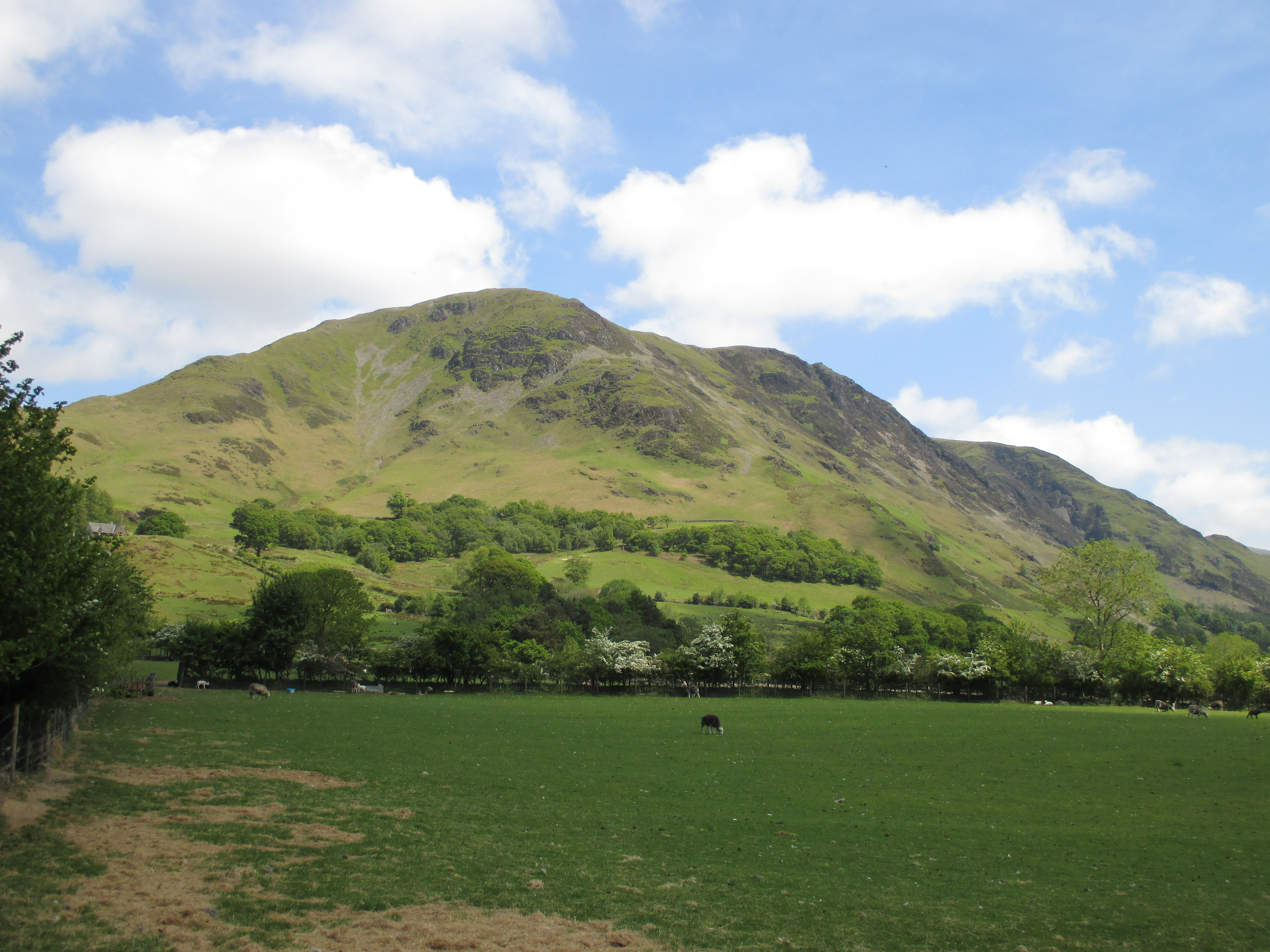 High Snockrigg seen from a mile to the west.